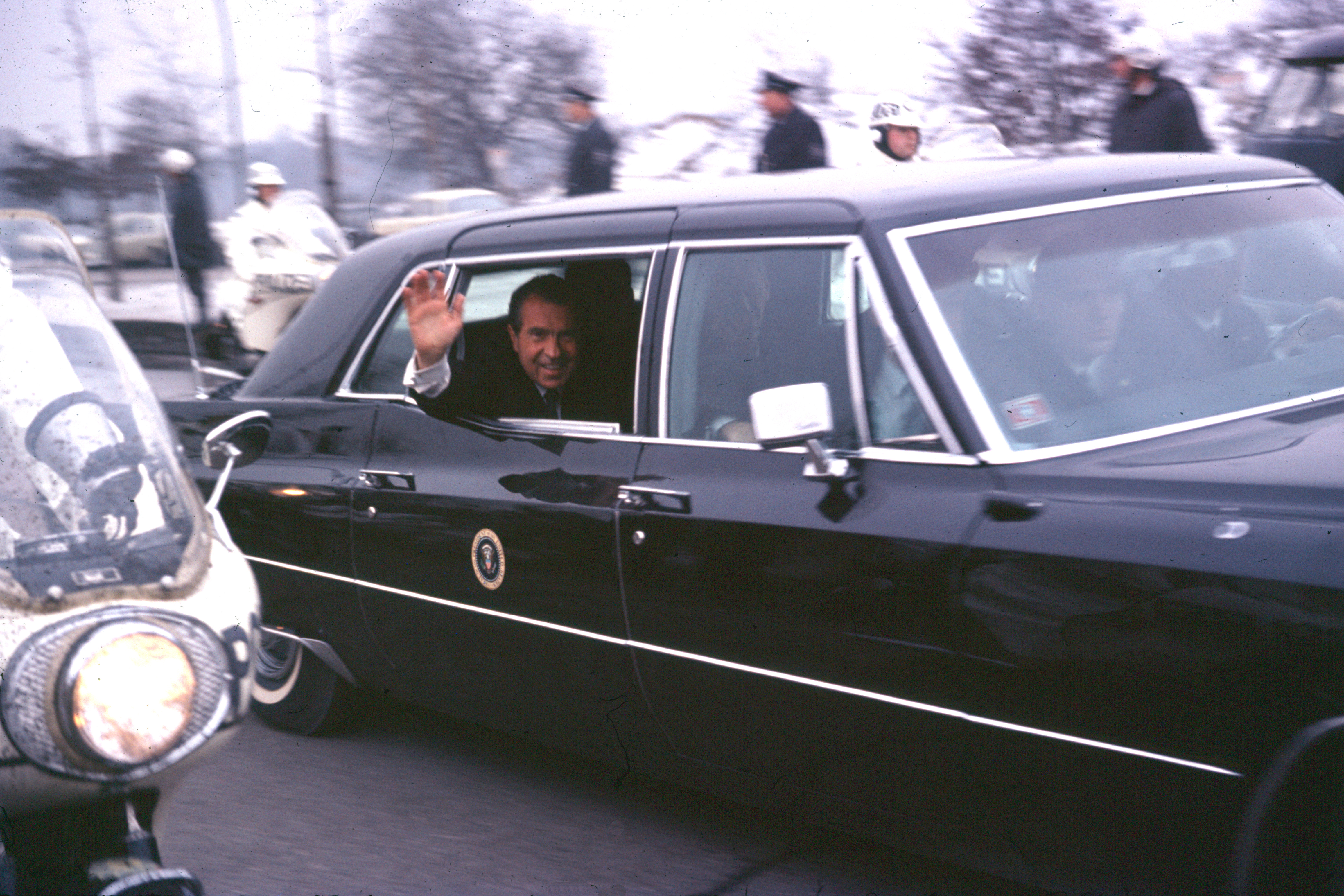 Richard Nixon in the late sixties on his visit to Berlin, Germany.